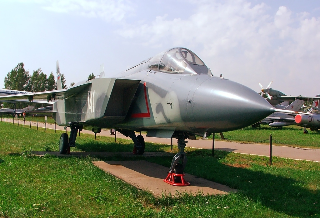 Yak-141 VTOL fighter at Central Russian Air Force museum, Monino